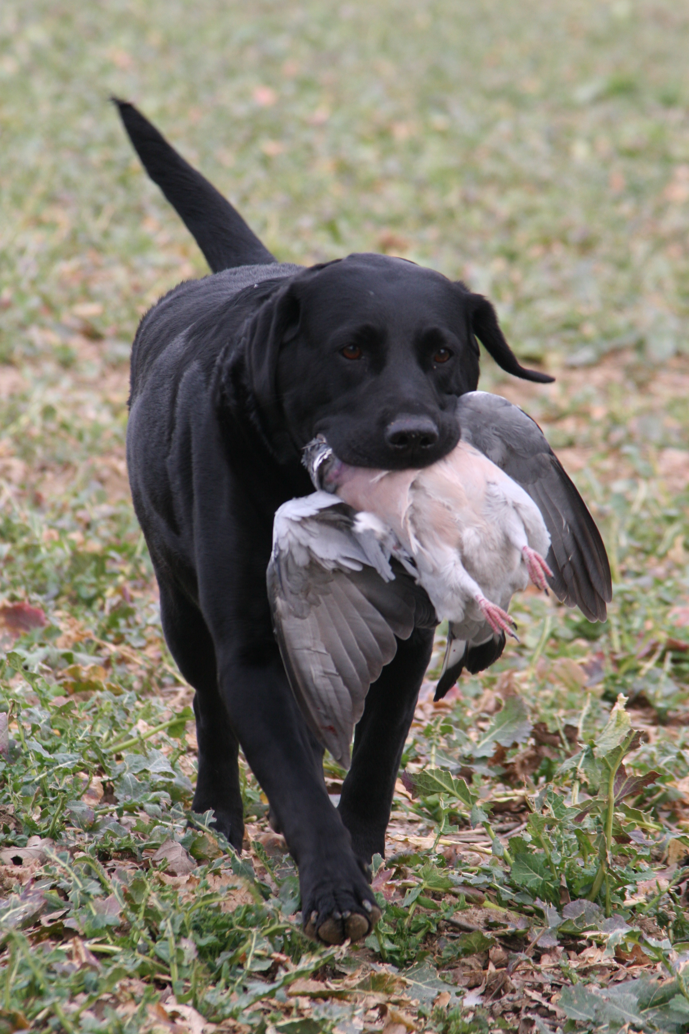 George Digweed's black labrador retrieves a pigeon shot at Bodiam Castle, Kent, England.